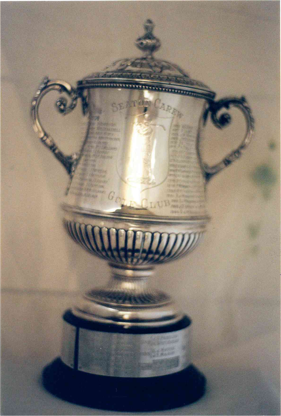 This picture is intended for use on the Seaton Carew Golf Club file and is one of 8 silver trophies purchased by the Gray Family for Seaton Carew Golf Club between 1880 and 1907.